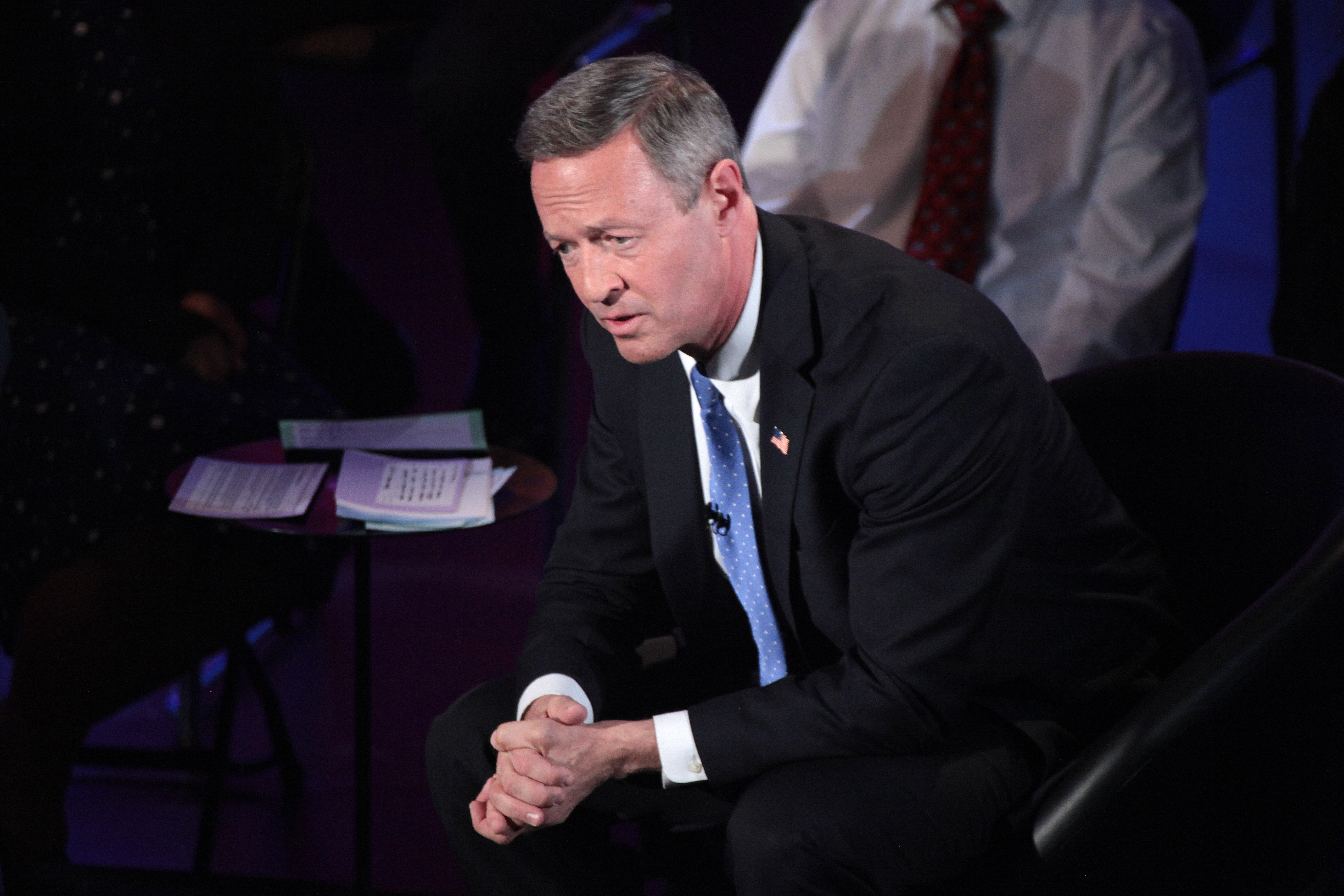 Former Governor Martin O'Malley speaking at the Brown & Black Presidential Forum at Sheslow Auditorium at Drake University in Des Moines, Iowa.